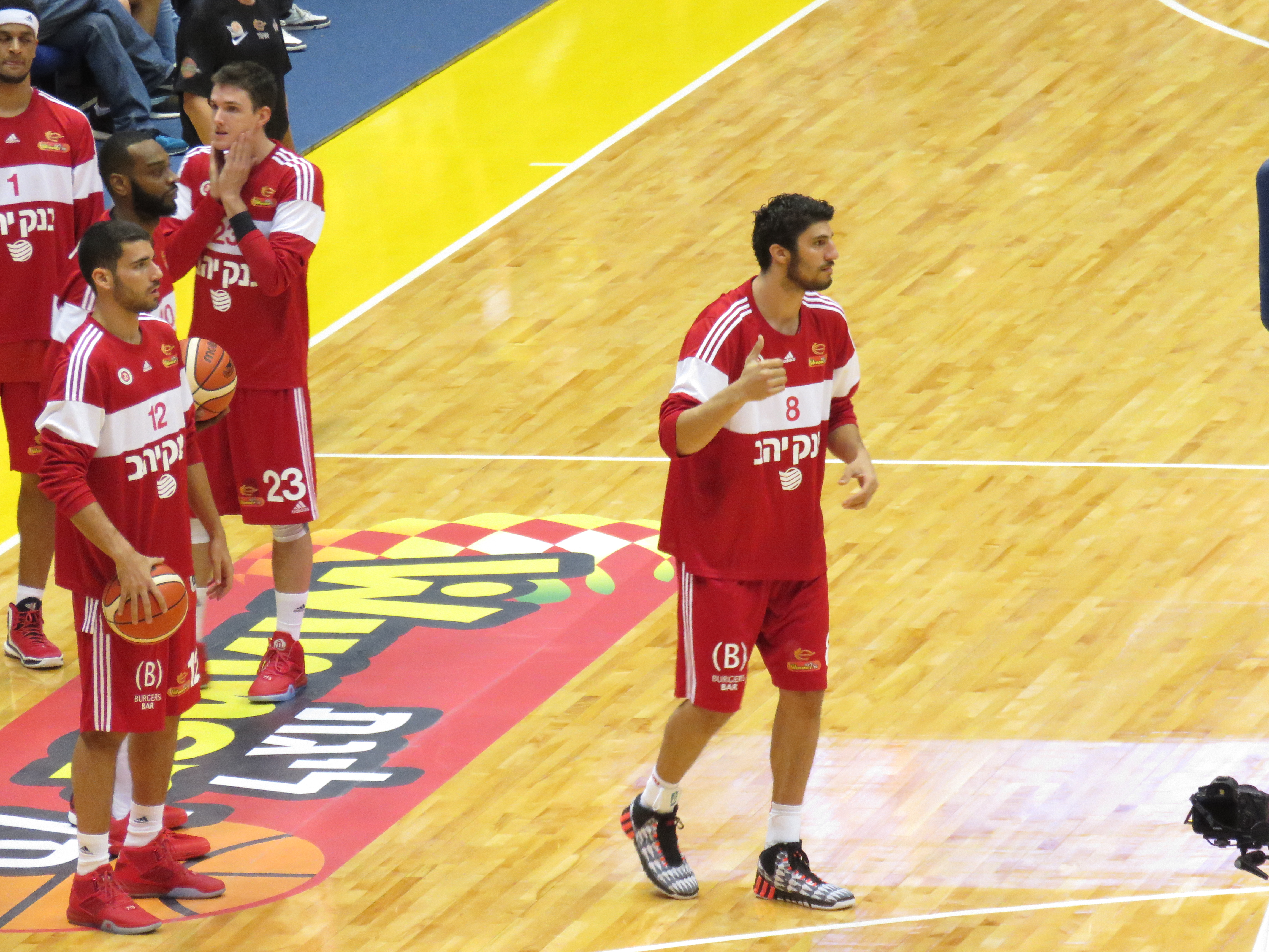 Maccabi Tel Aviv vs Hapoel Jerusalem, 25 October, 2015